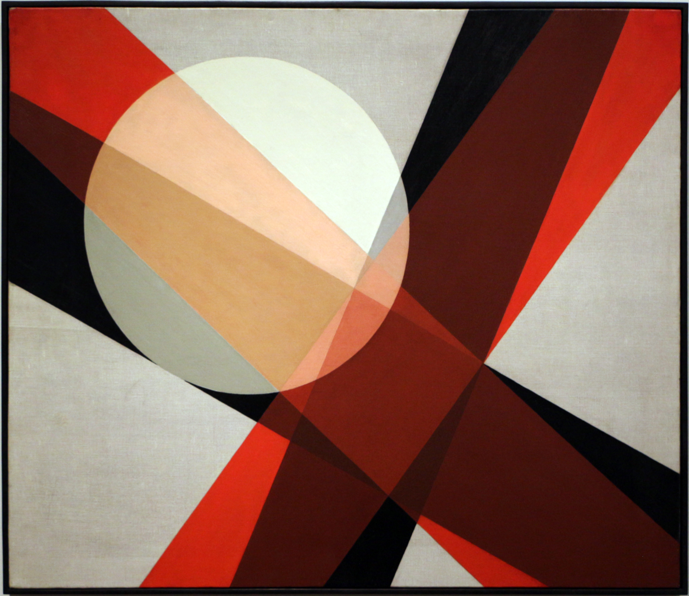 Moholy-Nagy: Future Present (2016 exhibition)